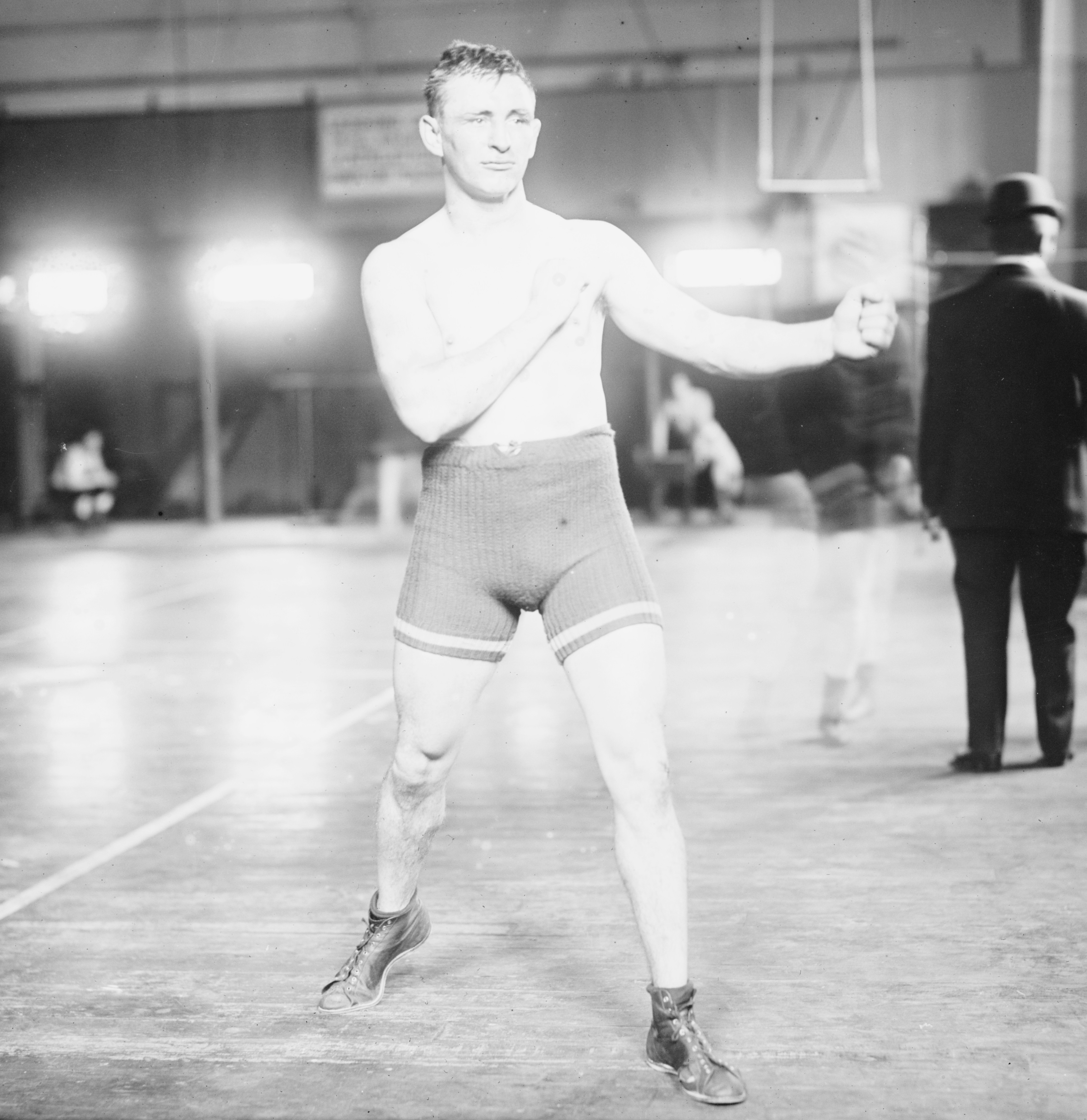 Kid Williams, a Danish boxer